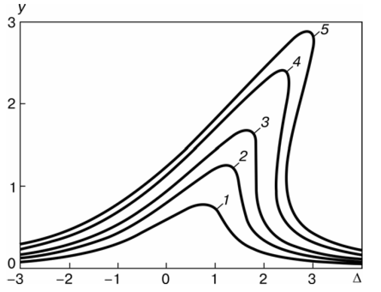 The resonant curves for the fundamental harmonic of the nonlinear oscillator with damping are presented. The growth of the number of the curve corresponds to the growth of the amplitude of the driving force. The third curve is a grid curve for a system of curves with a unique dependence between the frequency of the driving force and the deviation of the system from the equilibrium position. For larger amplitudes, there is a fundamentally important feature for nonlinear systems-the dependence between the frequency of the driving force and the response of the system becomes ambiguous. The curves are constructed in the normalized coordinates: \ Delta = (\ gamma ^ 2-1) Q and y = 3/4 \ epsilon Q \ xi_1 ^ 2. Here Q is the quality of the oscillator and \gamma is the ratio of driving force frequency and eigenfrequency corresponding linear system without damping.